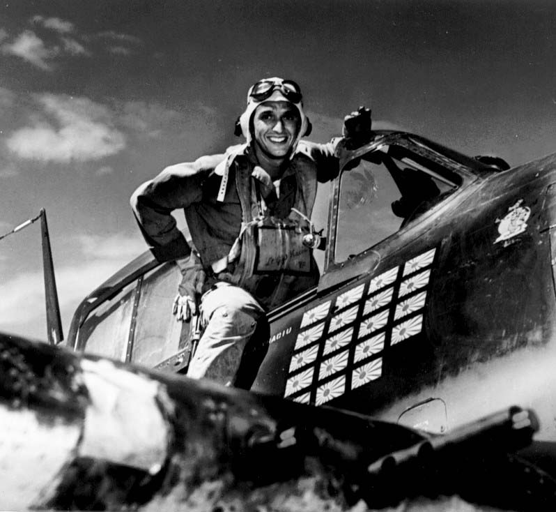 Lt.(jg) Alexander Vraciu in his F6F after the "Mission Beyond Darkness", Battle of the Phillipine Sea, June 20, 1944.